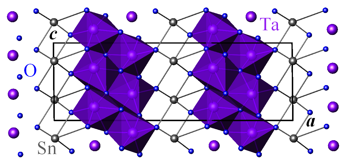 Crystal structure of thoreaulite, SnTa2O6, Cc, projected onto the (a,c) plane.